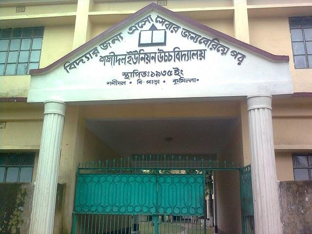 Shashidol Union High School This is a secondary school